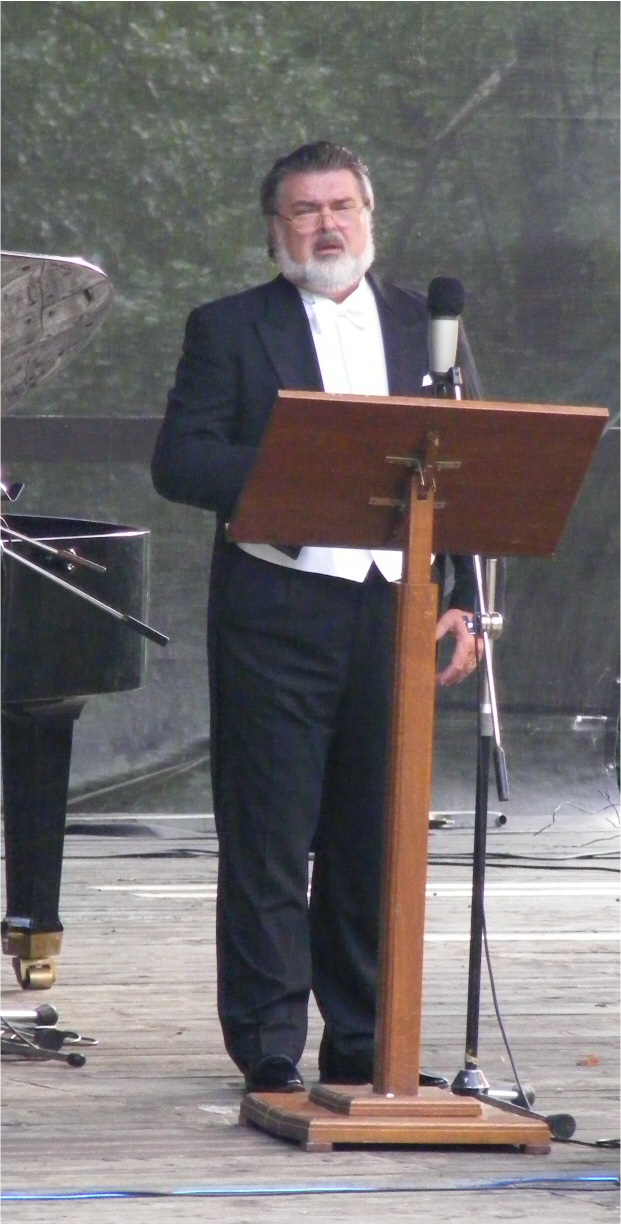 Dvorsky in performance in Hukvaldy, Czech Republic, August 2008.